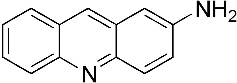 chemical structure of 2-aminoacridine